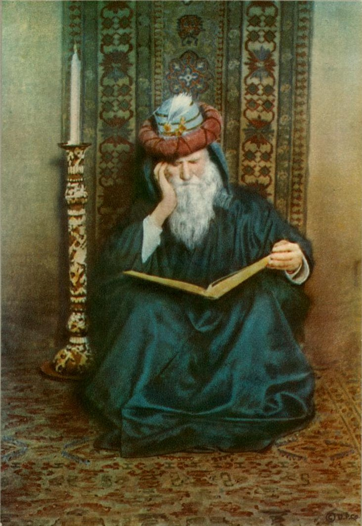 An old man with a long white beard and Persian headdress reads by the light of a large candle.